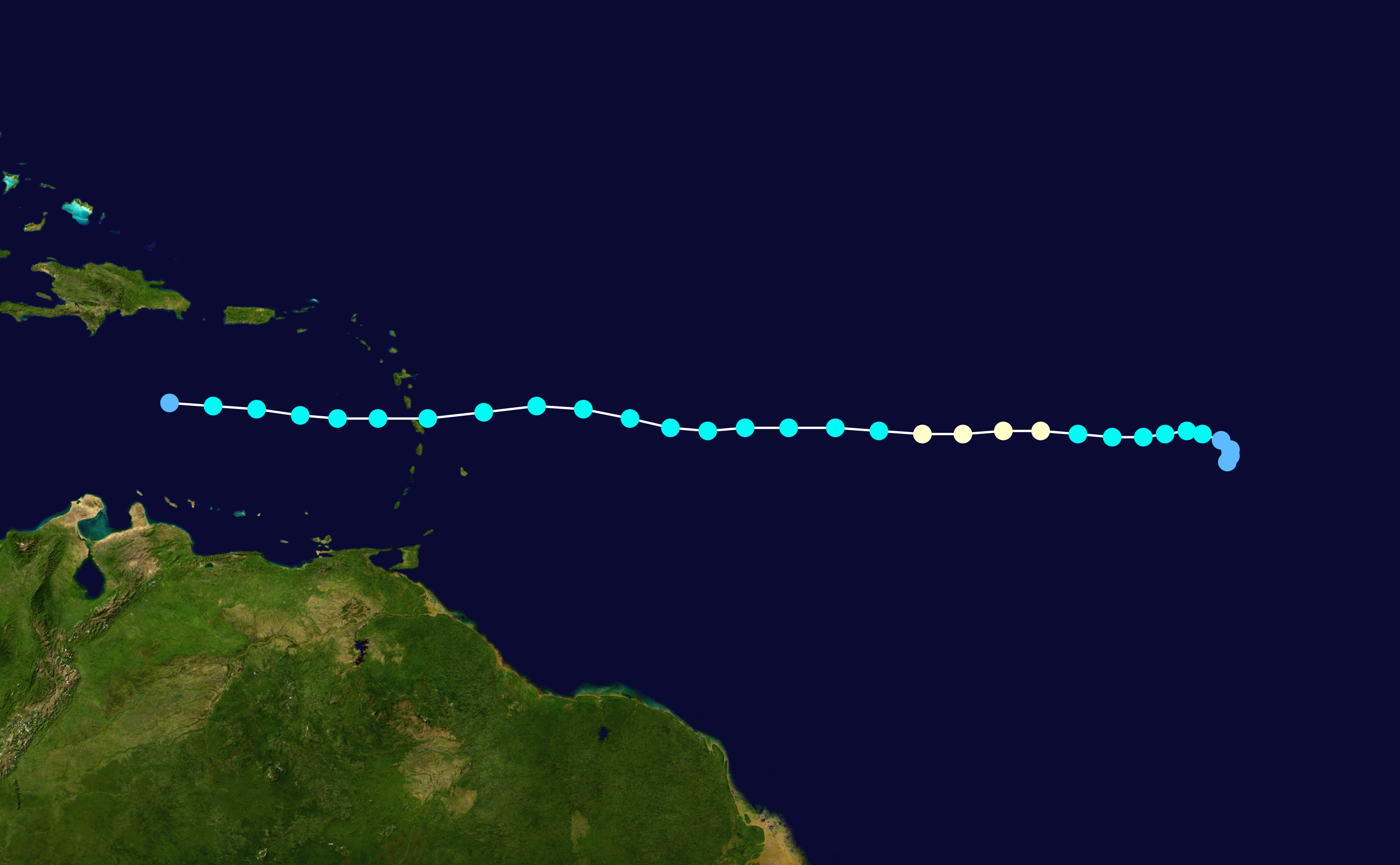 Track map of Hurricane Isaac (2018) of the 2018 Atlantic hurricane season. The points show the location of the storm at 6-hour intervals. The colour represents the storm's maximum sustained wind speeds as classified in the Saffir–Simpson scale (see below), and the shape of the data points represent the nature of the storm, according to the legend below. Saffir–Simpson scale Tropical depression≤38 mph≤62 km/h Category 3111–129 mph178–208 km/h Tropical storm39–73 mph63–118 km/h Category 4130–156 mph209–251 km/h Category 174–95 mph119–153 km/h Category 5≥157 mph≥252 km/h Category 296–110 mph154–177 km/h Unknown Storm type Tropical cyclone Subtropical cyclone Extratropical cyclone / Remnant low / Tropical disturbance / Monsoon depression